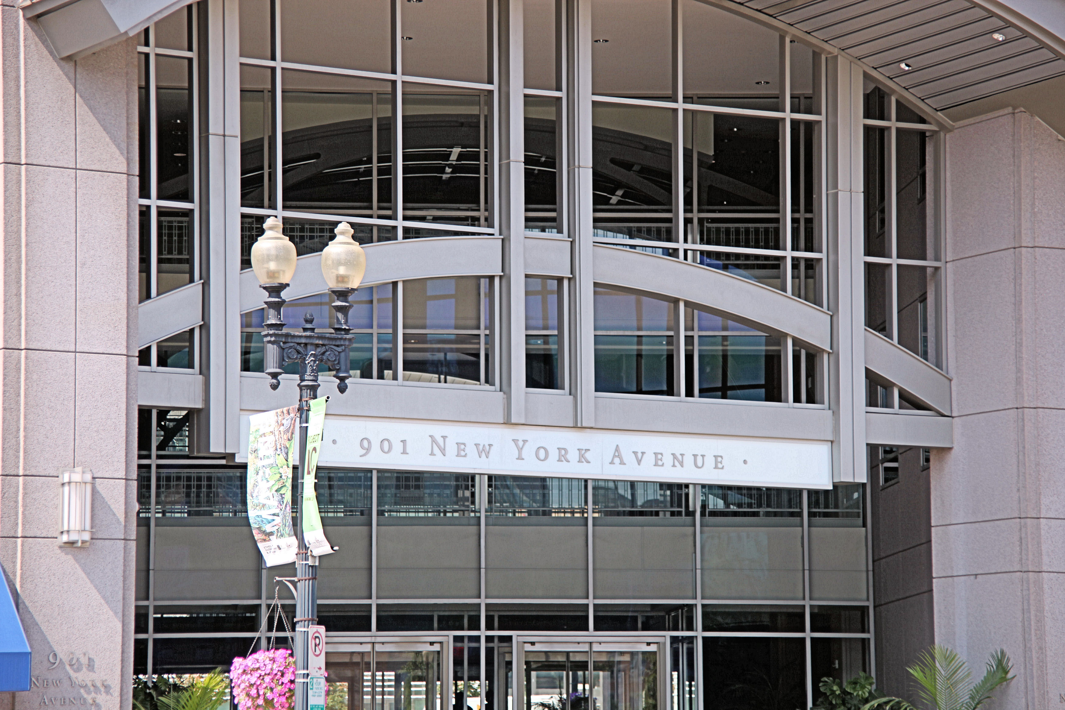 View of the south (main) entrance of 901 New York Avenue NW in Washington, D.C. The $54 million, 11-story, 530,000-square foot office building is owned by Boston Properties, and constructed by Clark Construction Co. in 2005. The architect was Davis Carter Scott of McLean, Virginia. The facade is polished granite and two-toned precast concrete, and the building inclues a three-story atrium lobby, four levels of underground parking, a rooftop deck, and a six-story monumental stair on the top floors.